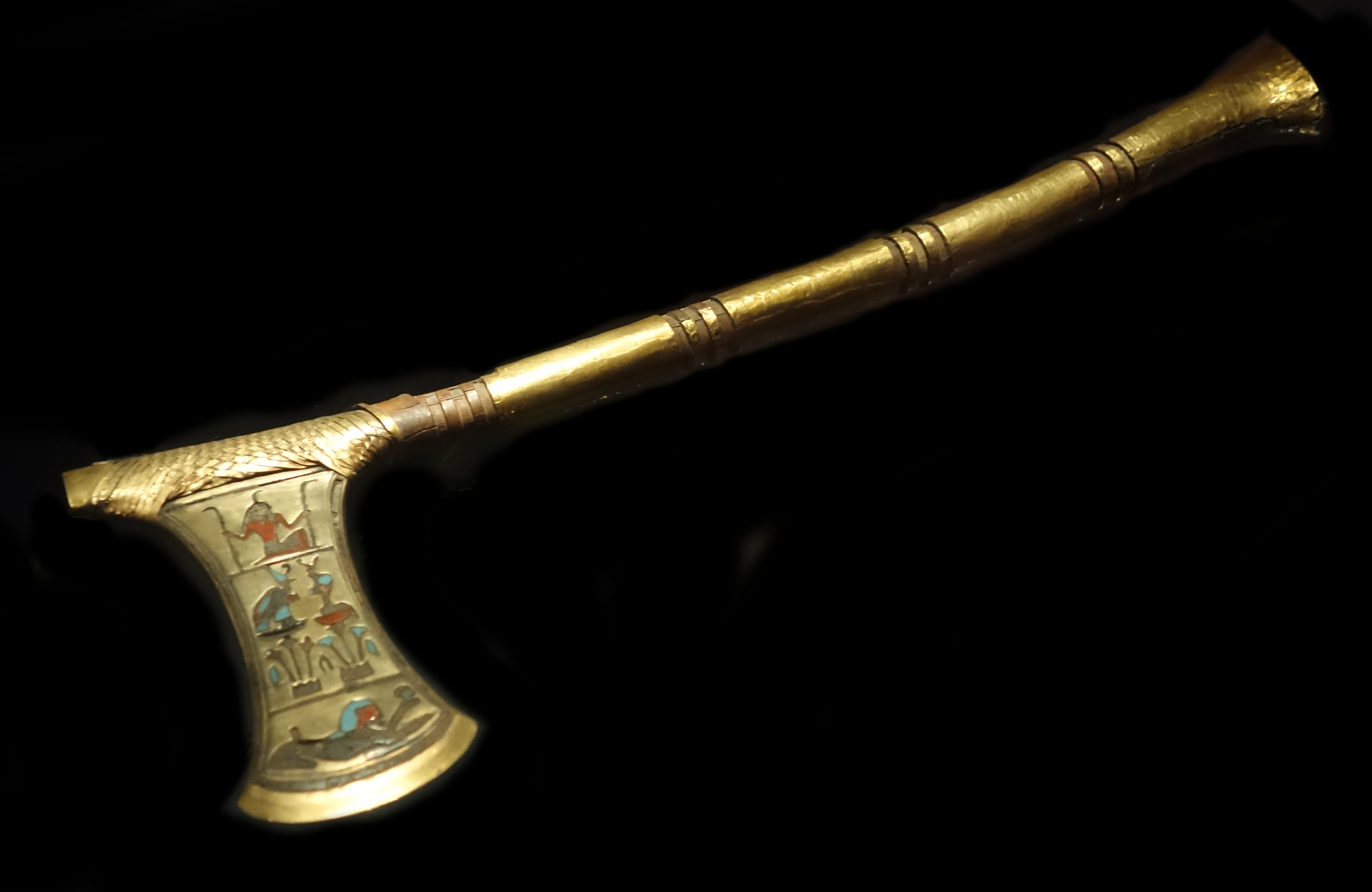 Ceremonial axe of Ahmose I. Luxor Museum (background retouched)